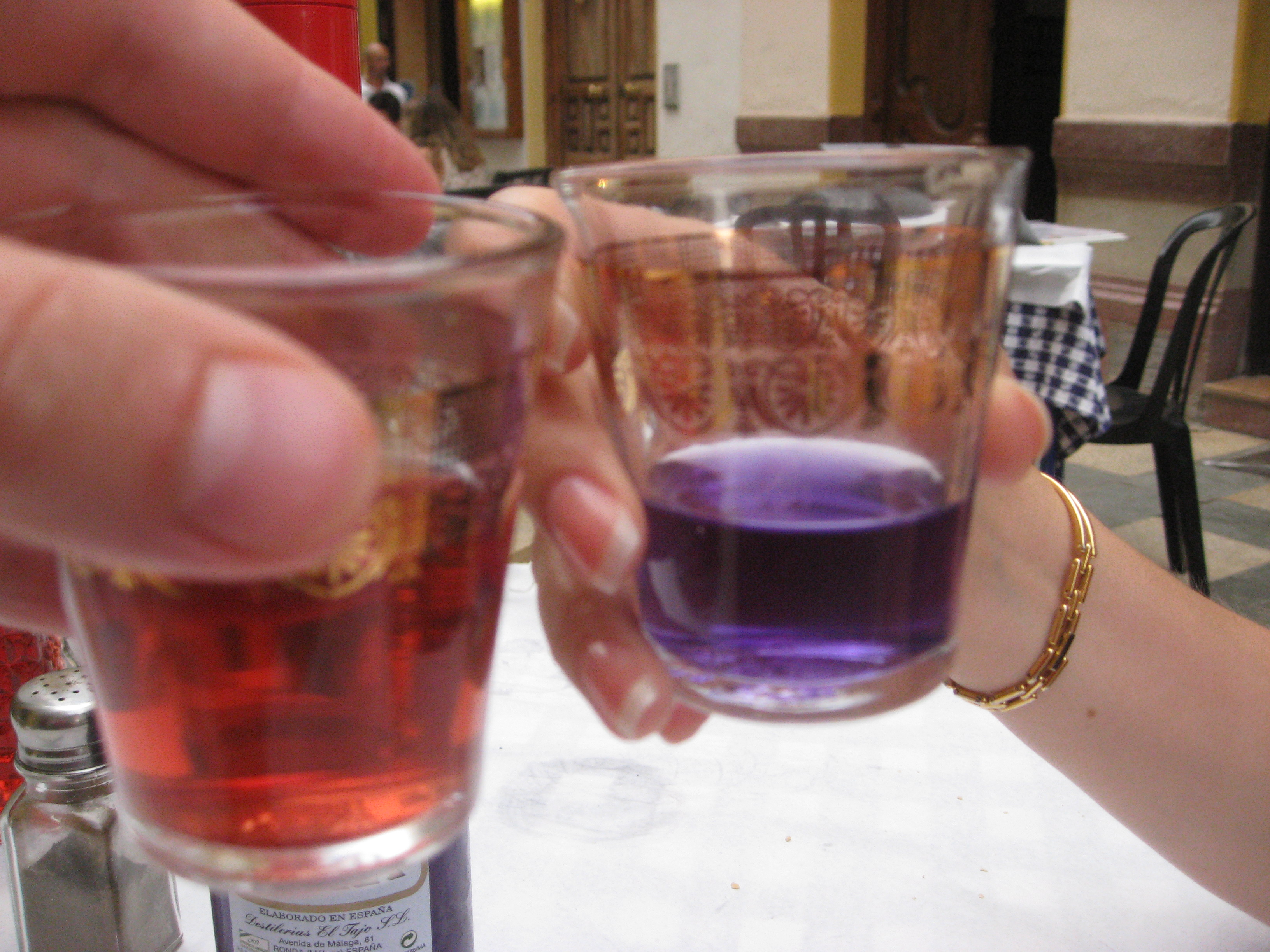 Glasses with different sorts of Patxaran liquor: red is a regular one, blue is non-alcoholic